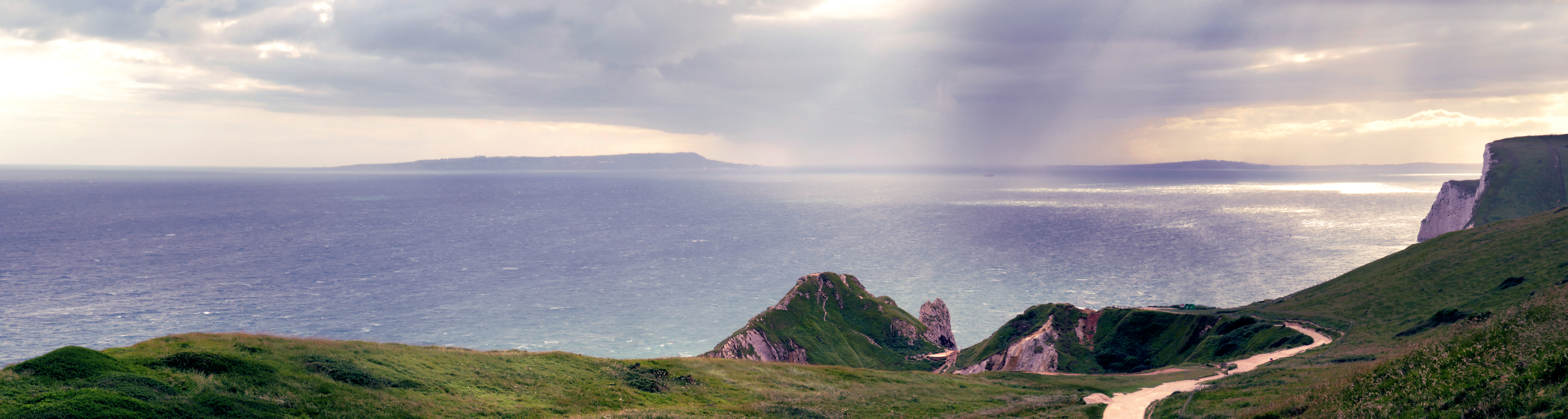 Panoramic image taken from the clifs above Durdle door. This is composed of several smaller HDR images. The image was taken shortly before sunset and a patch of rain is approaching over the sea.